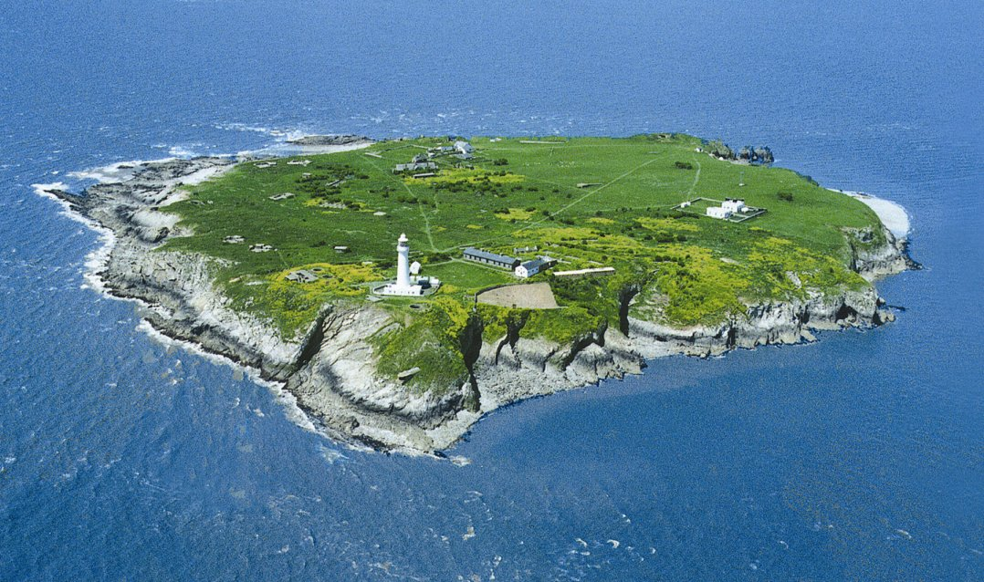 Aerial View of Flat Holm Island near Cardiff